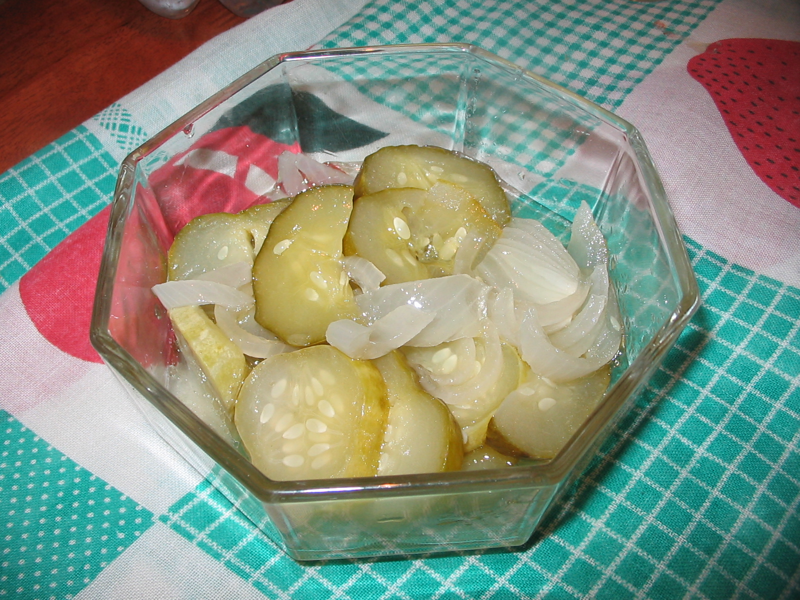 Nizhyn salad